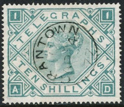 10 Shilling telegraph stamp of Great Britain used 1877.